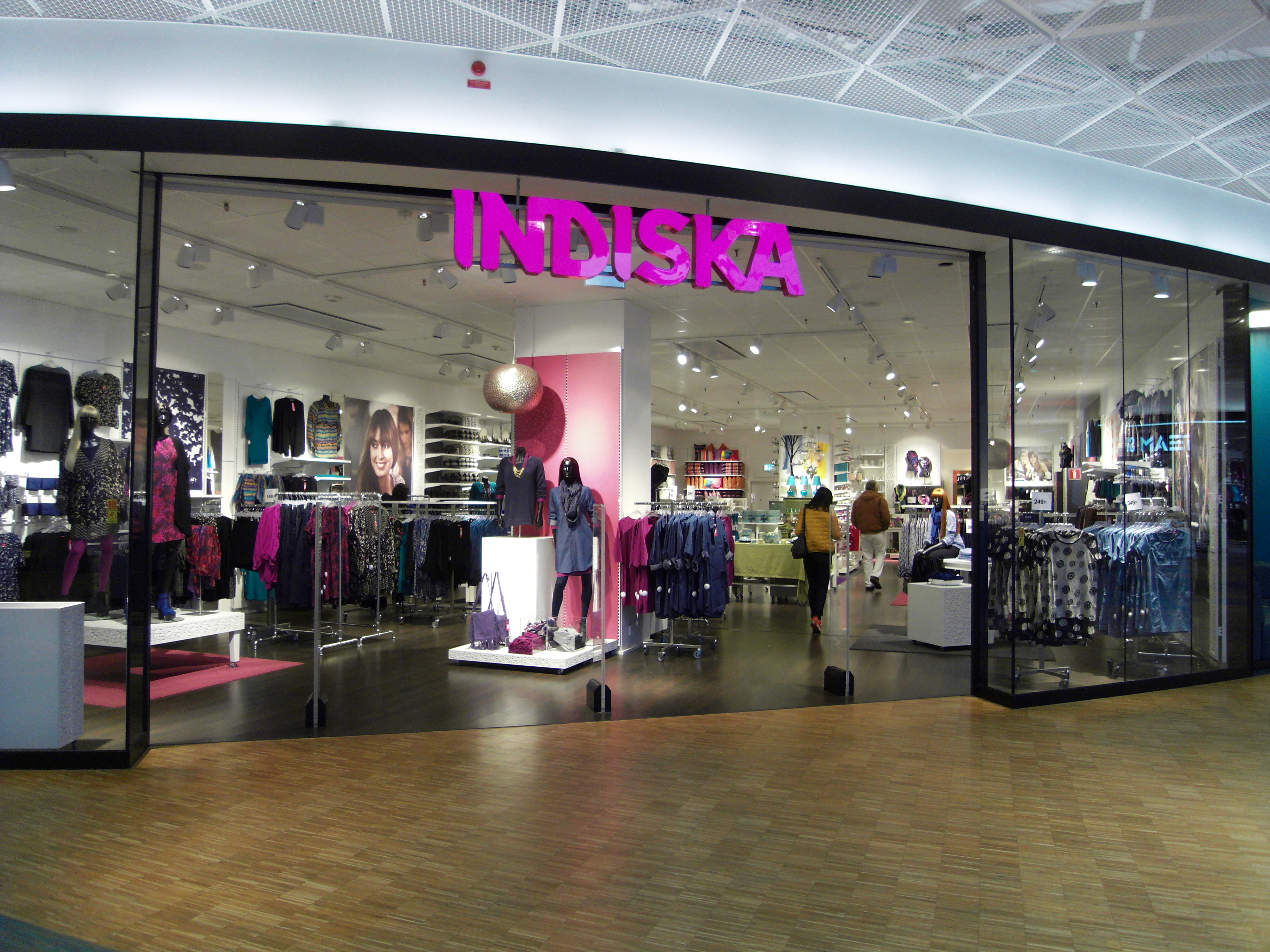 An Indiska store at the shopping mall Emporia in the city of Malmo.